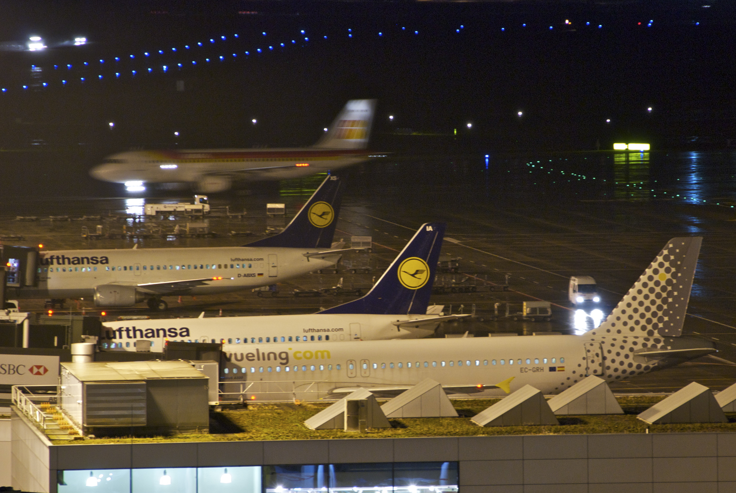 First flight: November 22, 1990...(c/n 146) 01/02/1991 Iberia EC-578 20/03/1991 Iberia EC-FBR 25/01/1998 Iberia EC-GRH named Sierra de Segura 15/09/2006 Clickair EC-GRH 09/07/2009 Vueling Airlines EC-GRH